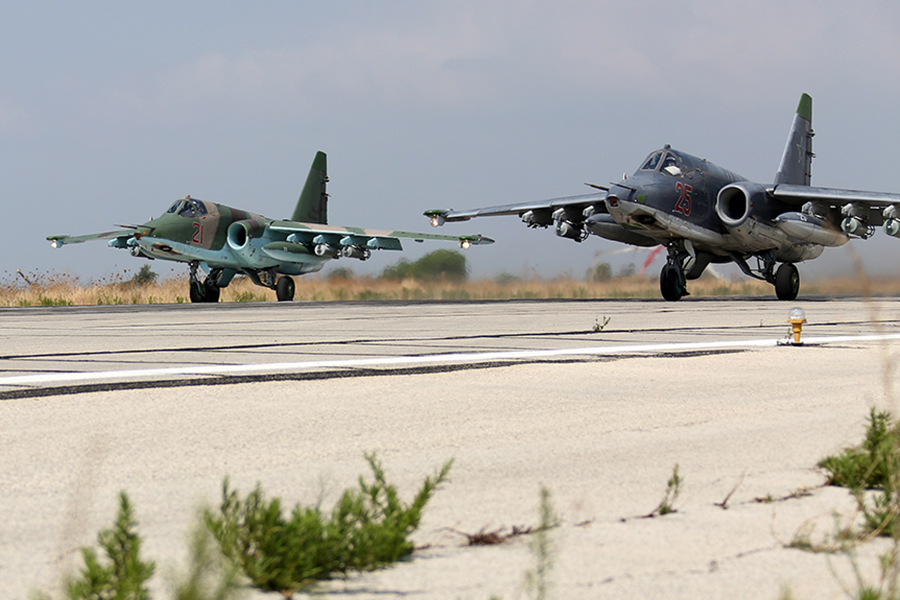 Russian Sukhoi Su-25 at Latakia